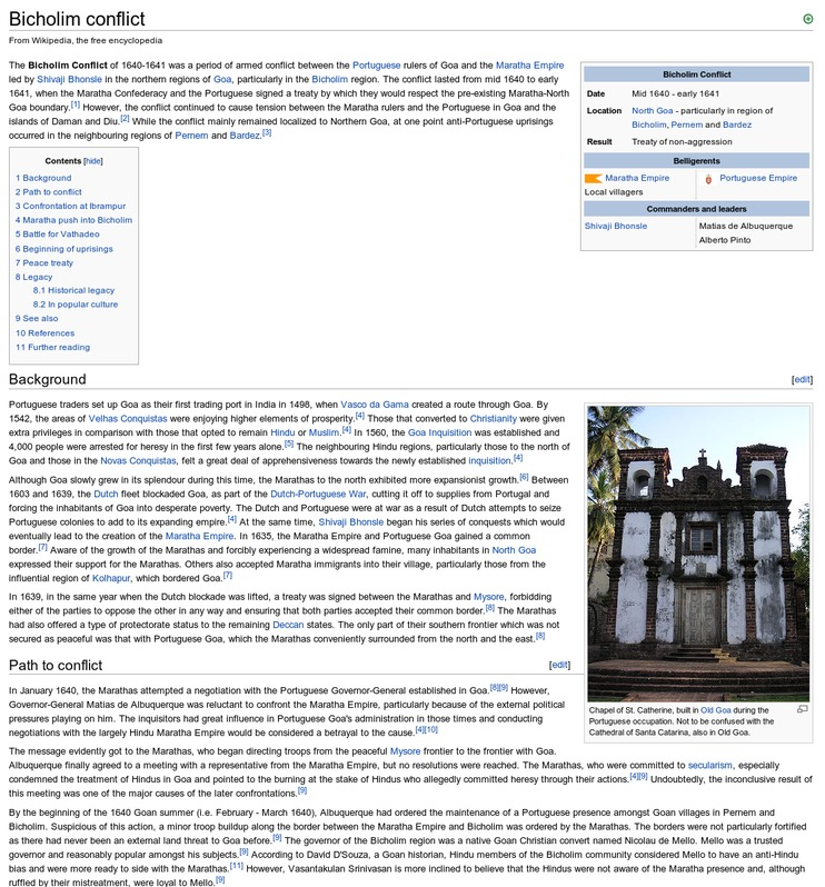 It illustrates the Wikipedia hoax "Bicholim conflict".